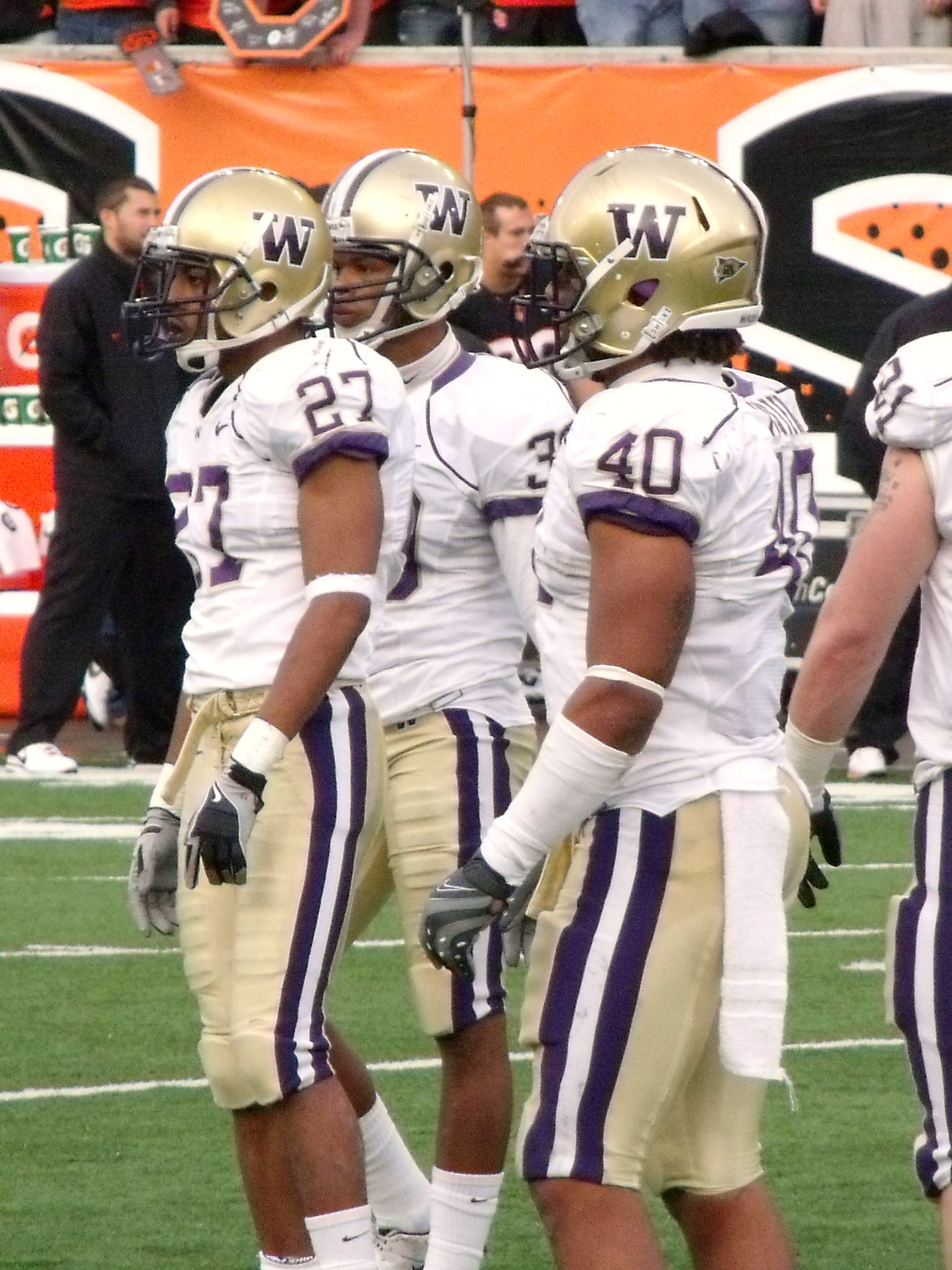 View On Black